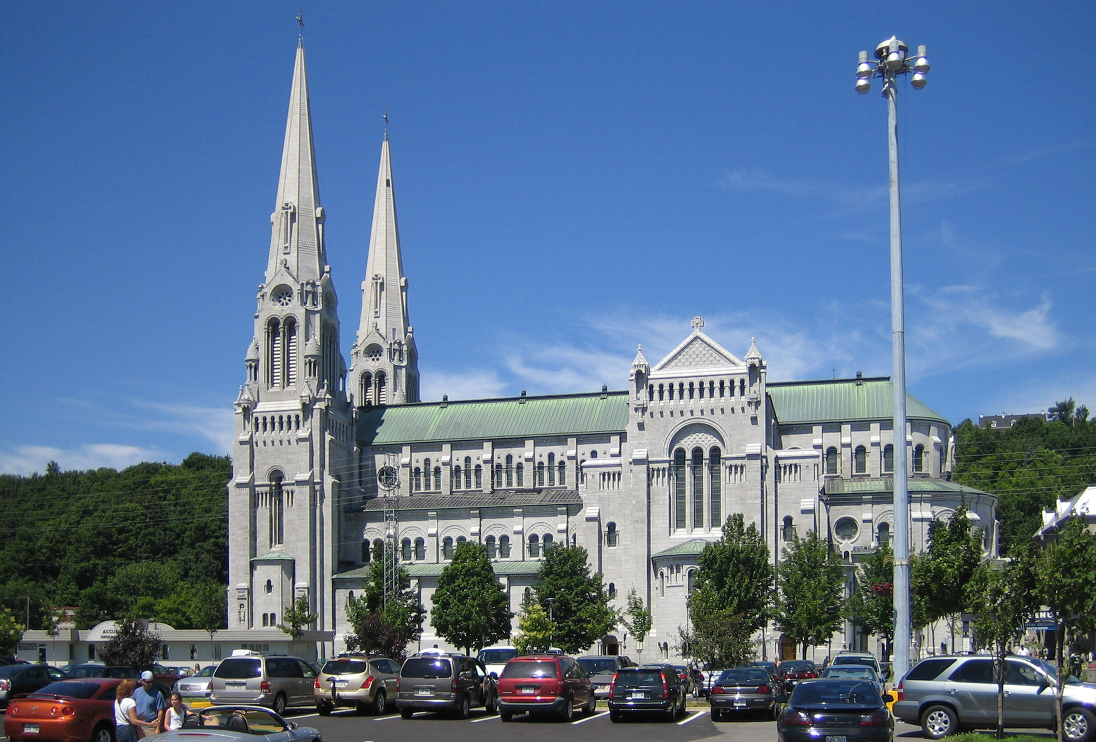 Sainte-Anne-de-Beaupré (province of Quebec), Shrine of St Ann of Beaupré. South-east façade.